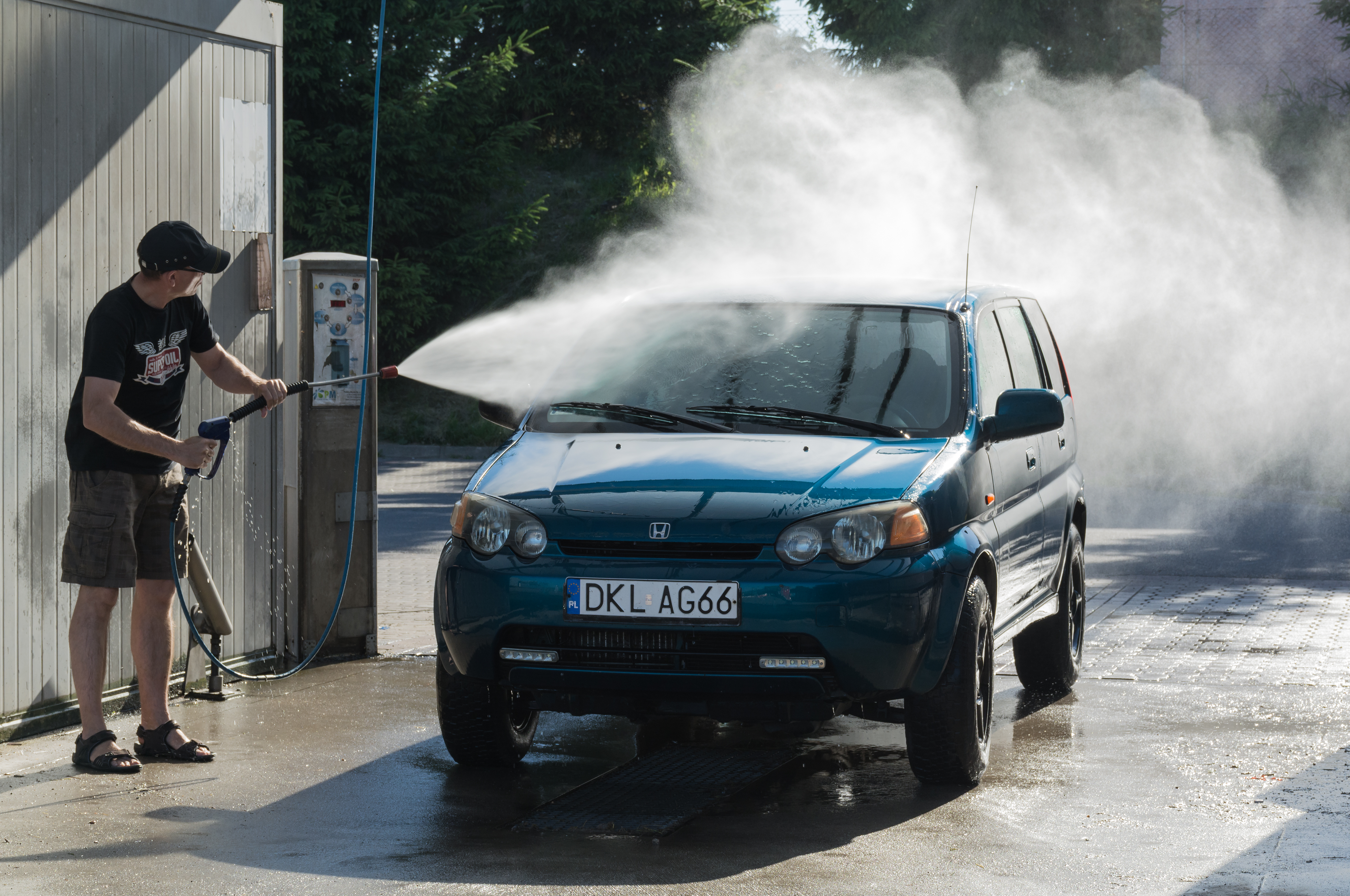 Honda HR-V car wash at Dusznicka Street in Kłodzko, Poland